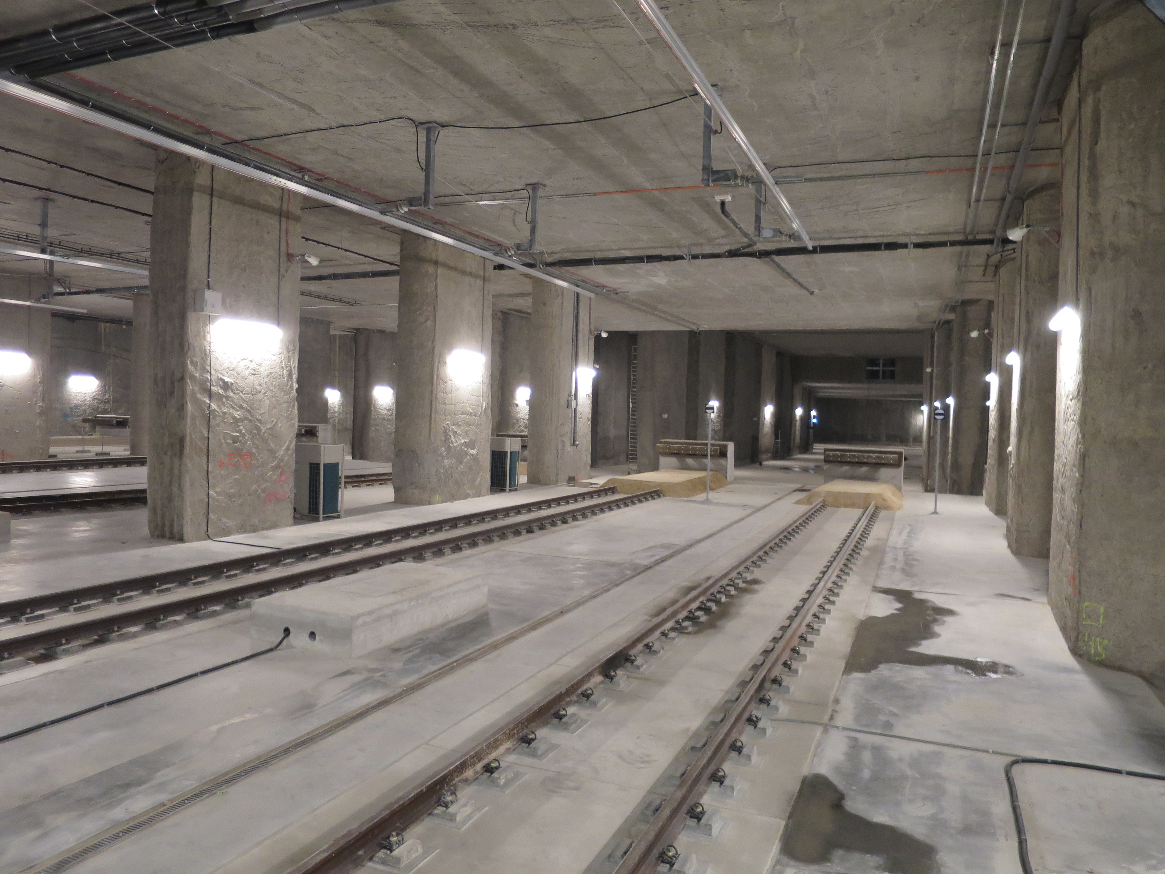 The making of this document was supported by Wikimedia Polska Association, within Wikigrant no. WG 2016-56. Łódź Fabryczna - tunel